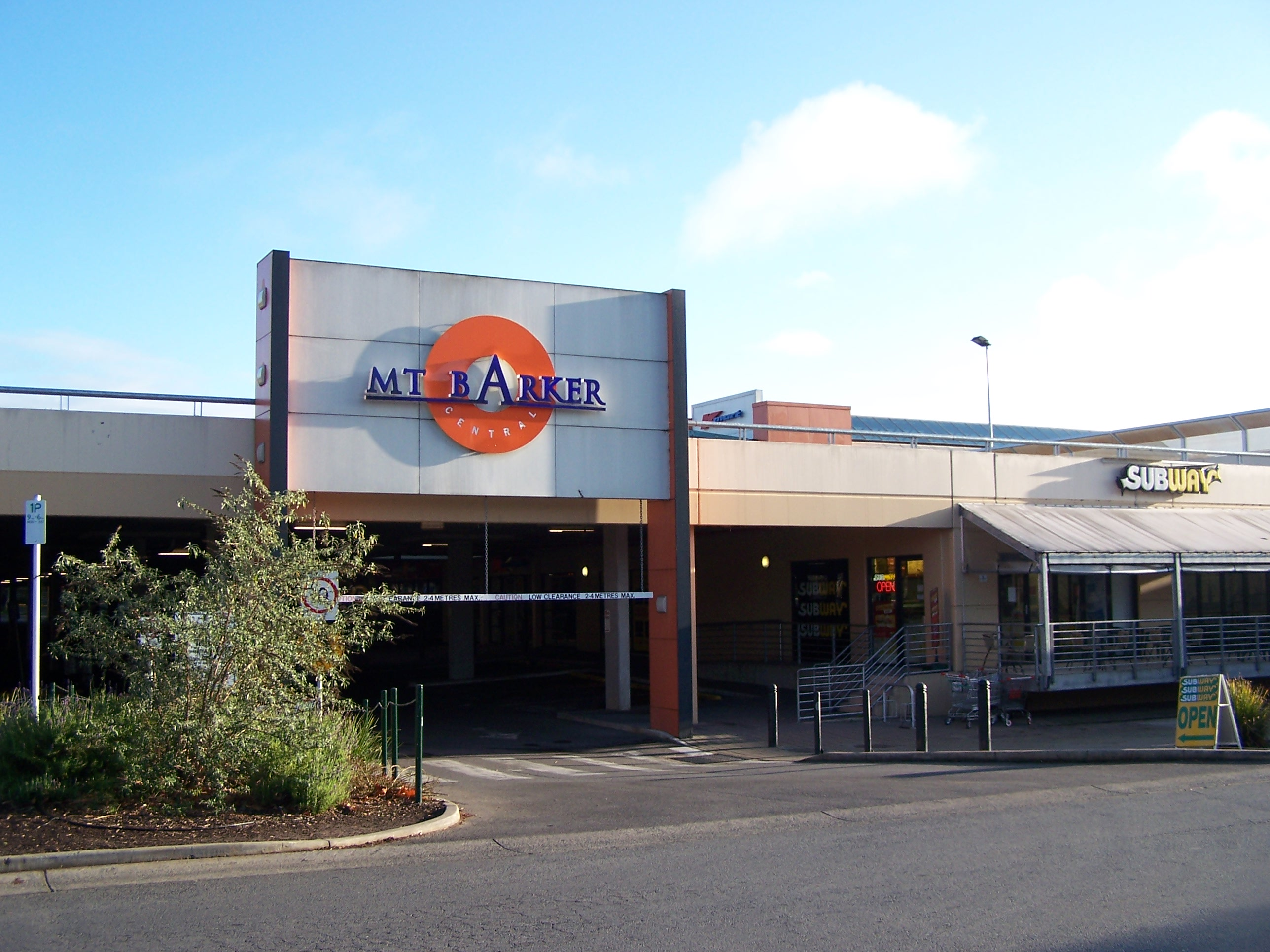 See above